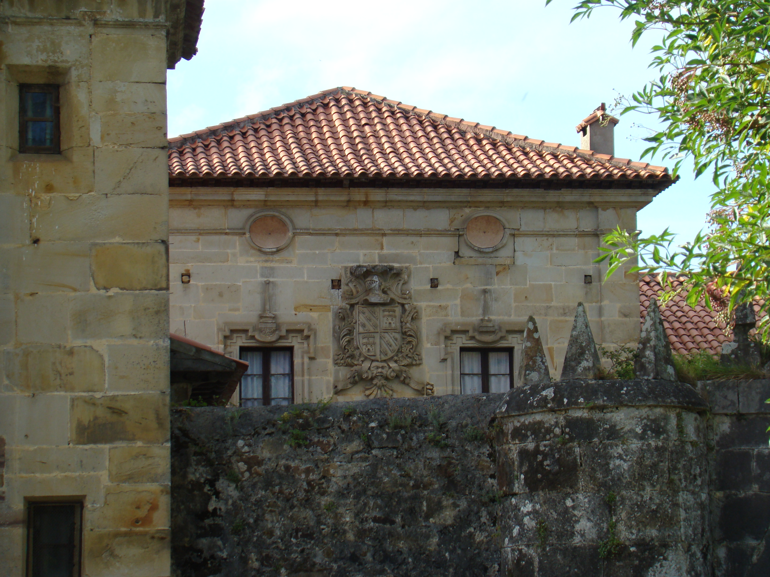 Bárcena de Cicero (Cantabria, Spain). Noble house of the Lord of Rugama. It is a palace built for Lorenzo de Rugama in the middle of the 18th century which consists of a tower-house and a chapel-pantheon consagrated to the Virgin of Carmen.